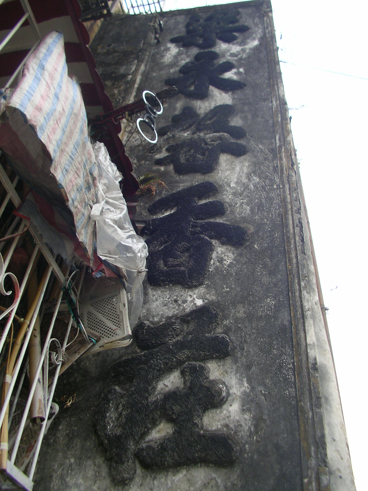 This is a sign on the old city wall of Macau.